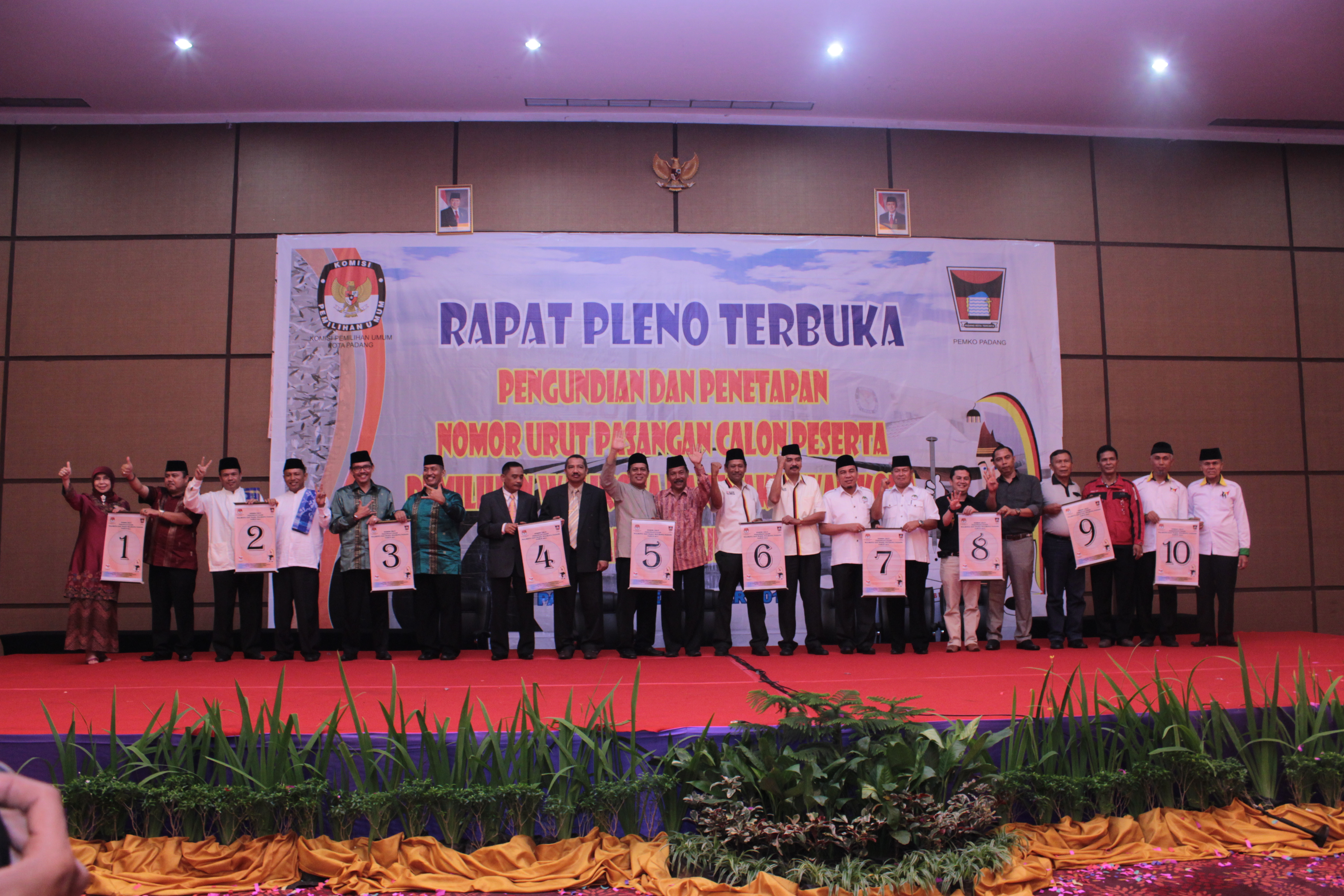 10 Pasang Kandidat Pemilihan Wali Kota Padang 2013